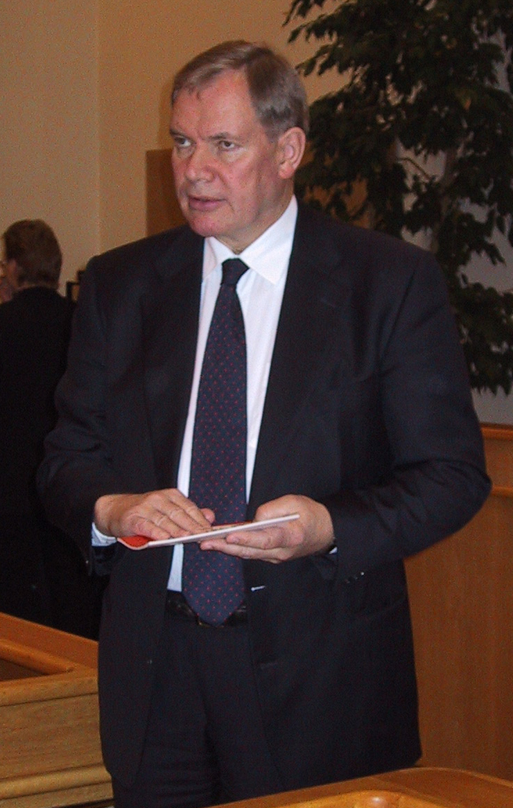 Paavo Lipponen in Janaury 2002